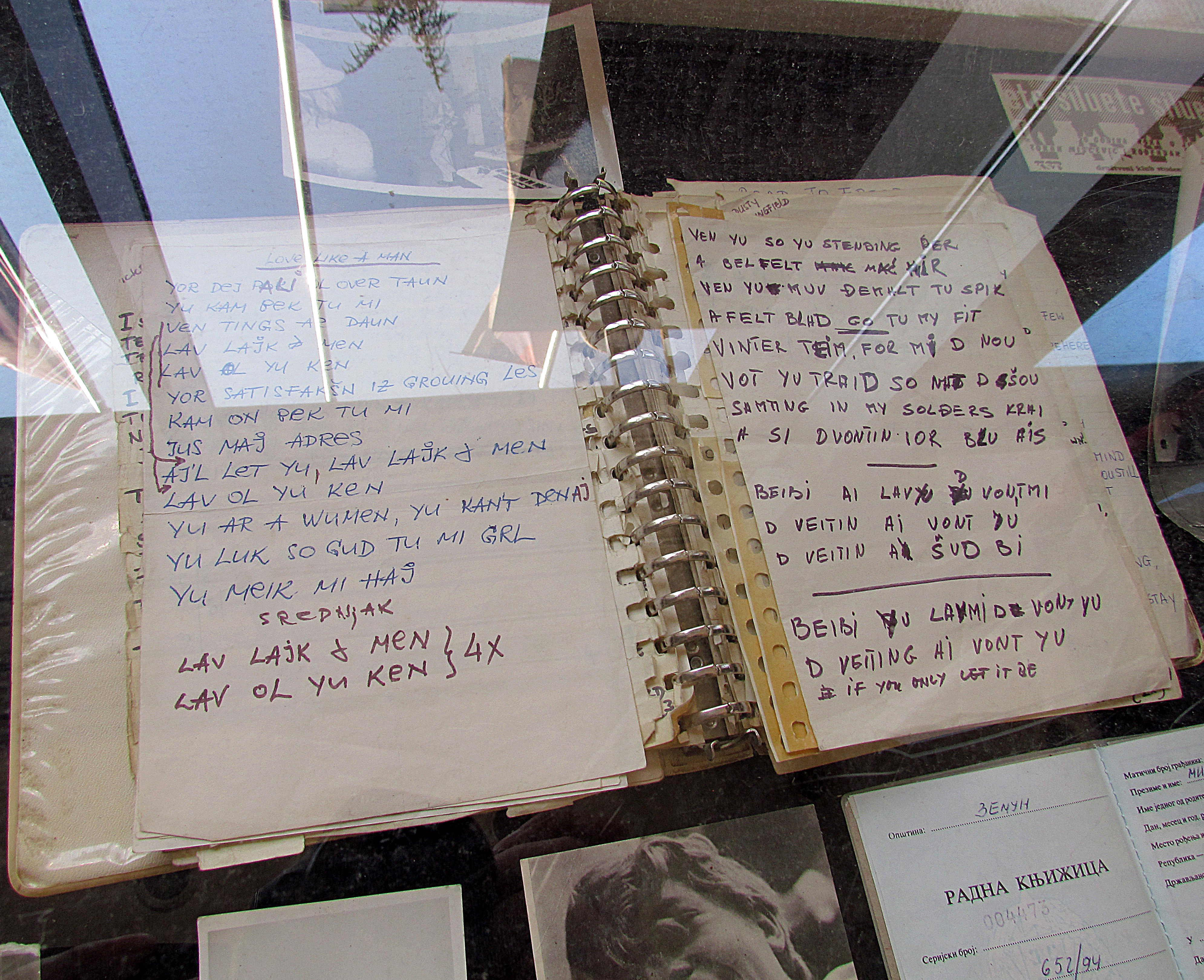 The notebook of Zoran Miščević, pop singer of 60s